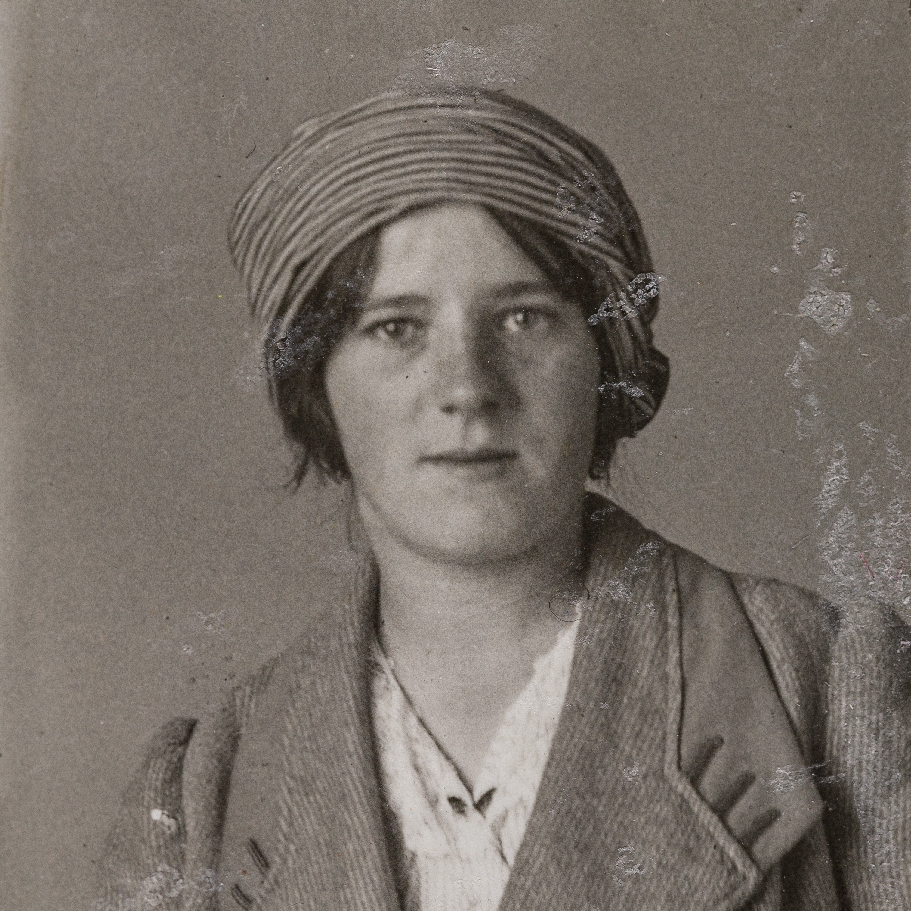 7HFD/D Elsie Duval suffragette